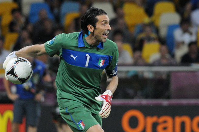 Gianluigi Buffon at Euro 2012 match against England